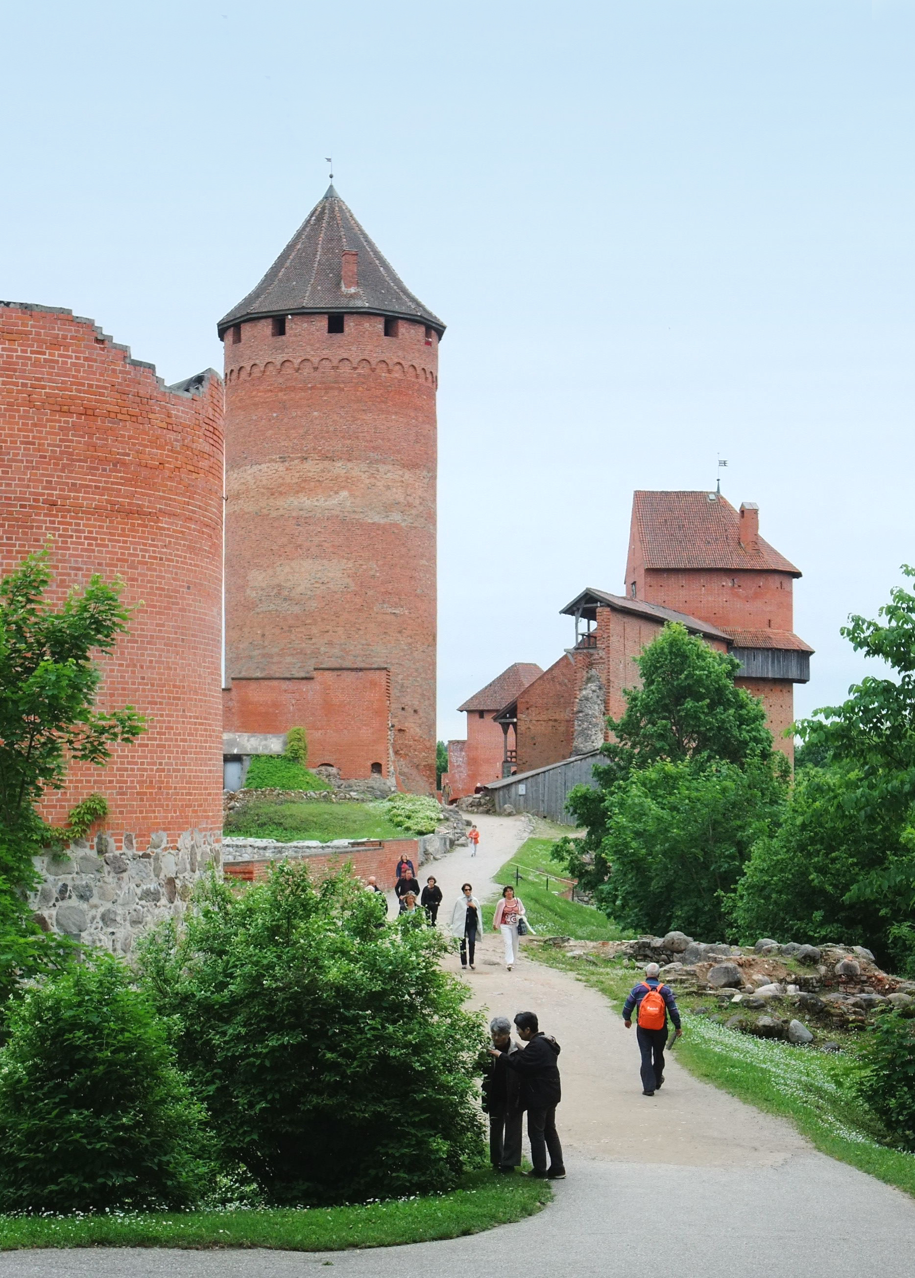 Turaida Castle in Latvia